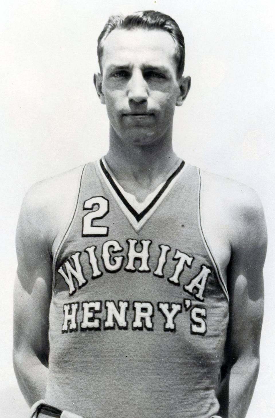 Wichita State basketball player Ross McBurney circa 1930.